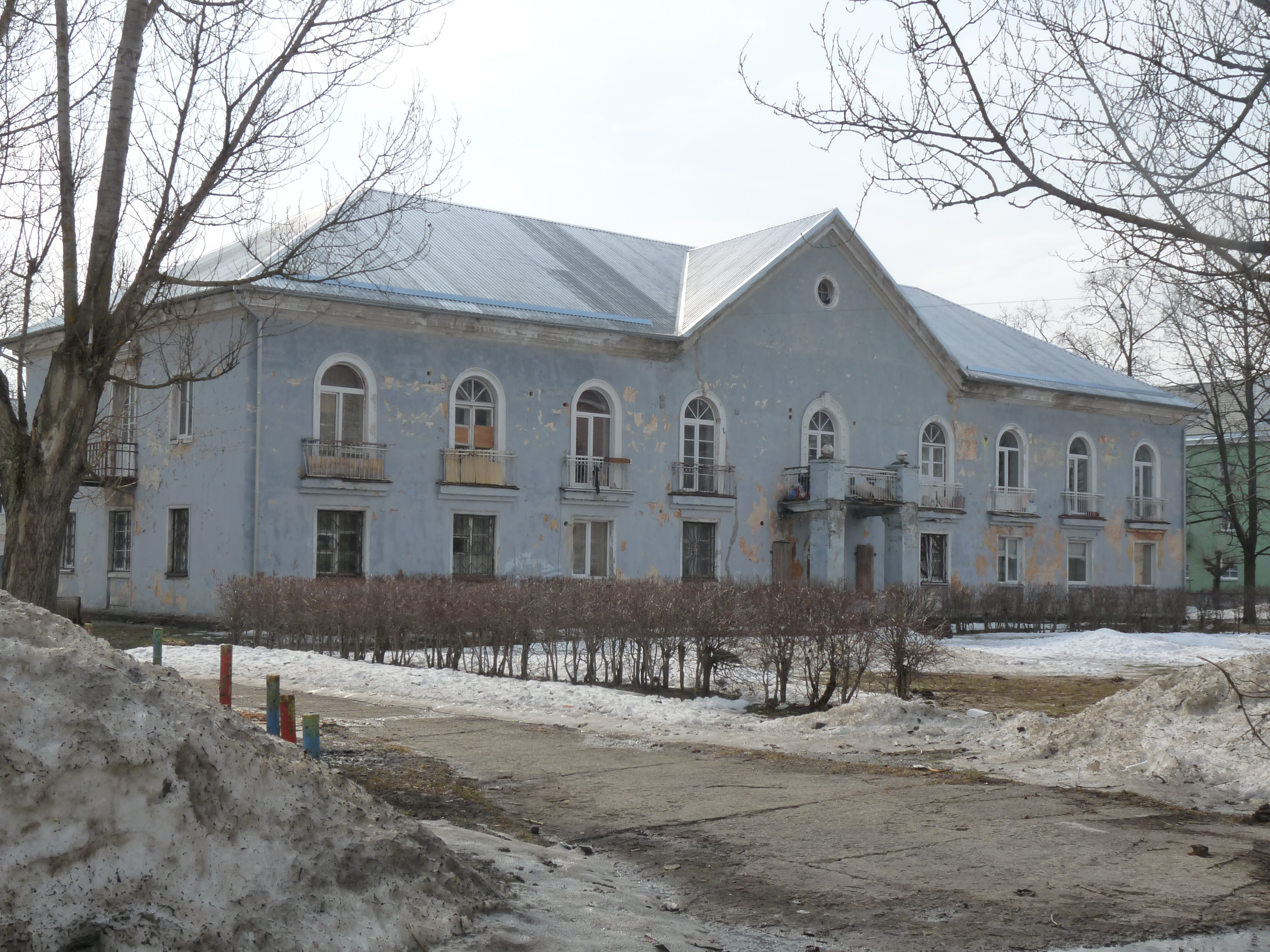 2-storey Stalin-era apartment building